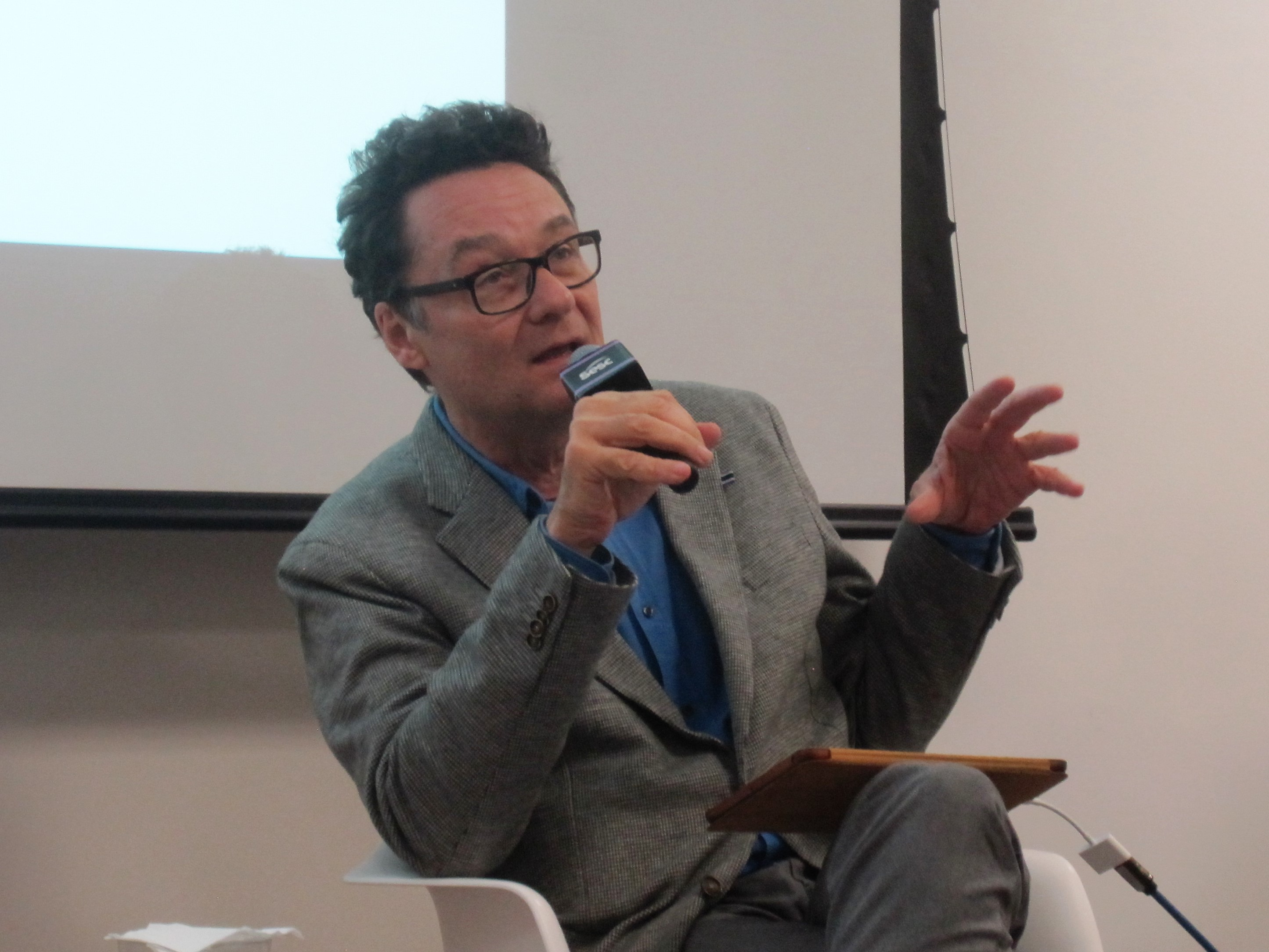 Márcio Seligmann-Silva taking part of a seminary in São Paulo, Brazil.